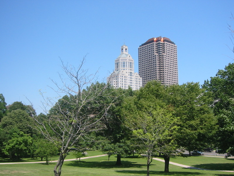 City Place and Goodwin Square from Bushnell Park Photo taken by Michael Czaczkes